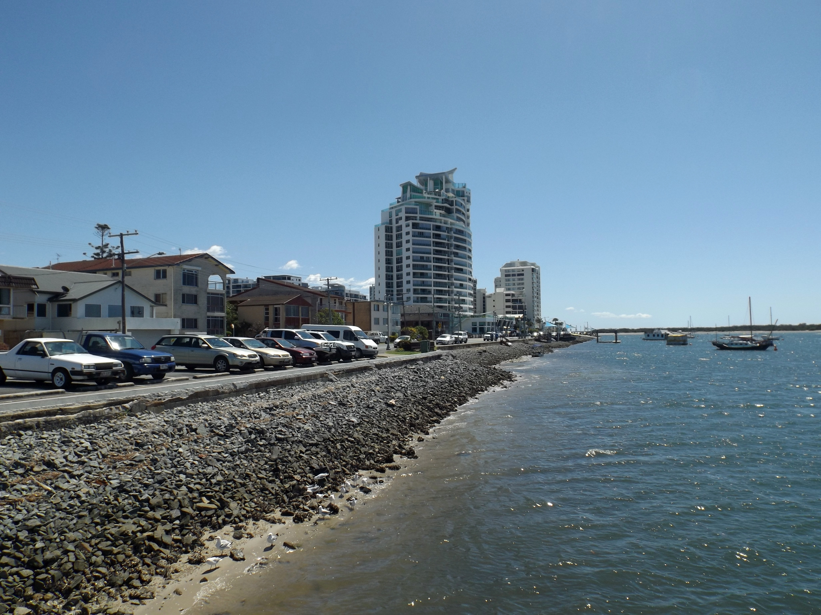 Photo of the Broadwater foreshore at Labrador, Gold Coast City, Queensland, Australia.